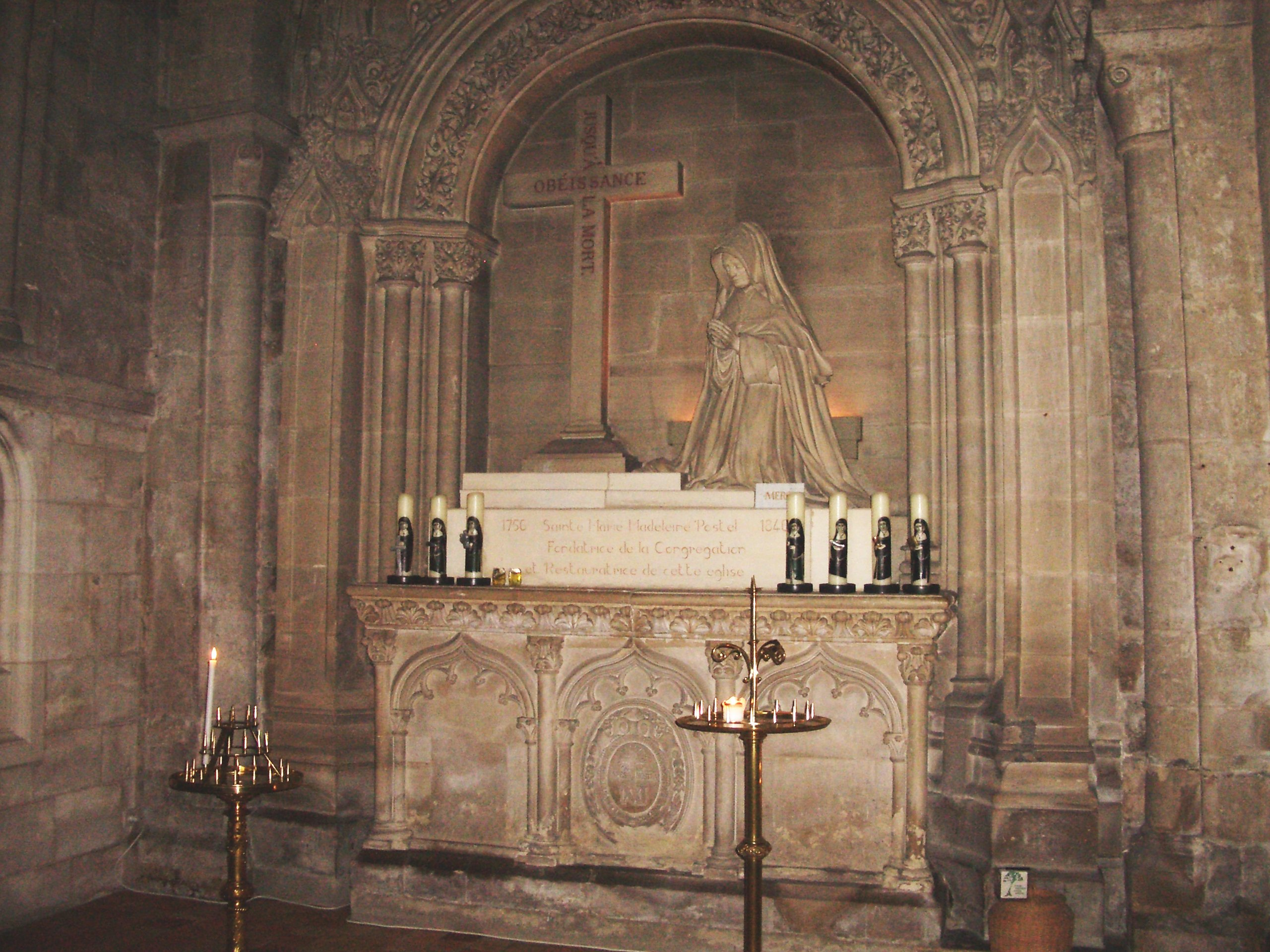 Saint Marie-Madeleine Postel tomb in the abbaye of St Sauveur le Vicomte